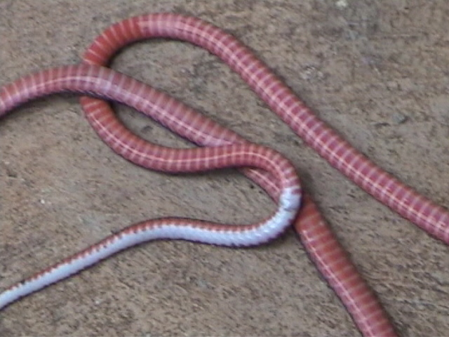 A photo of underside of the Black Coral Snake taken at BR Hills.